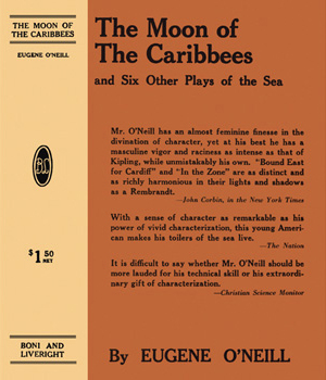 Front cover and spine of the first edition printing of The Moon of the Caribbes and Six Other Plays of the Sea by Eugene O'Neill